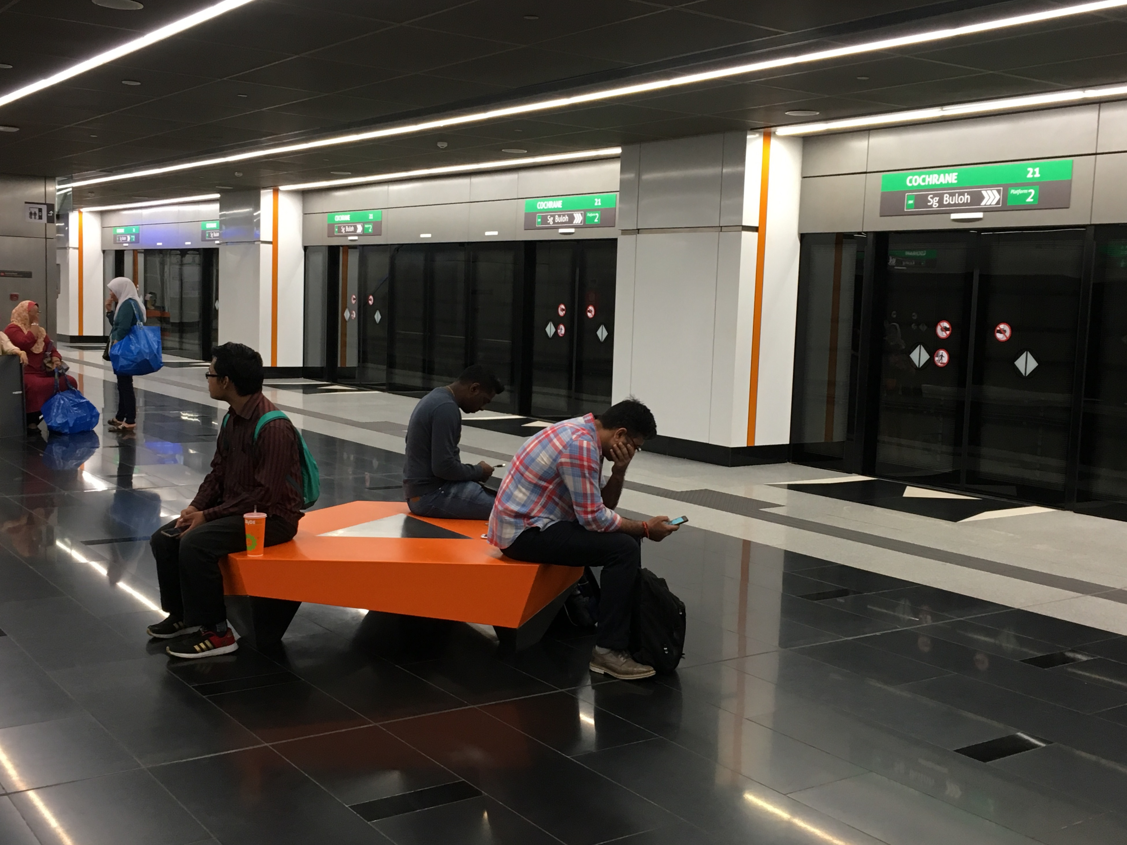 Platform 2 (Sungai Buloh-bound) of the Cochrane Station.